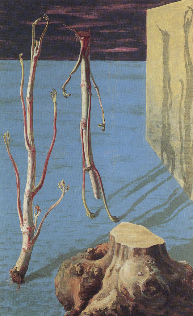 Picture with trees